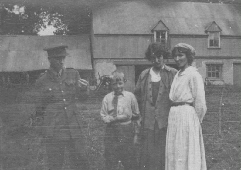 Margery and Brynhild Olivier at Tatsfield